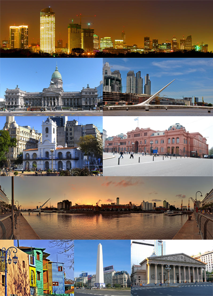 Photo montage of Buenos Aires, Argentina.